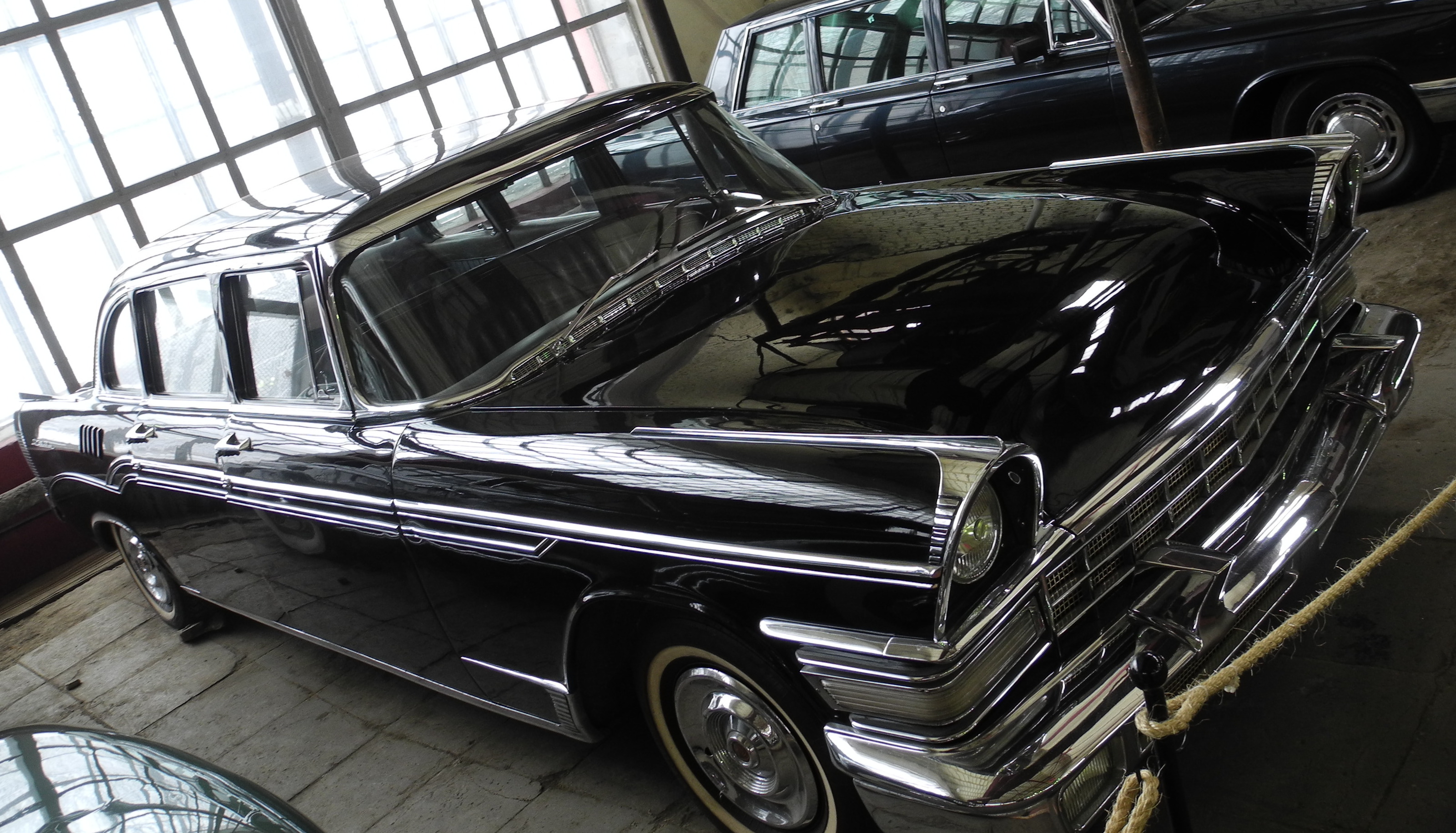 GAZ ZIL 111, foto taken in a museum in moscow